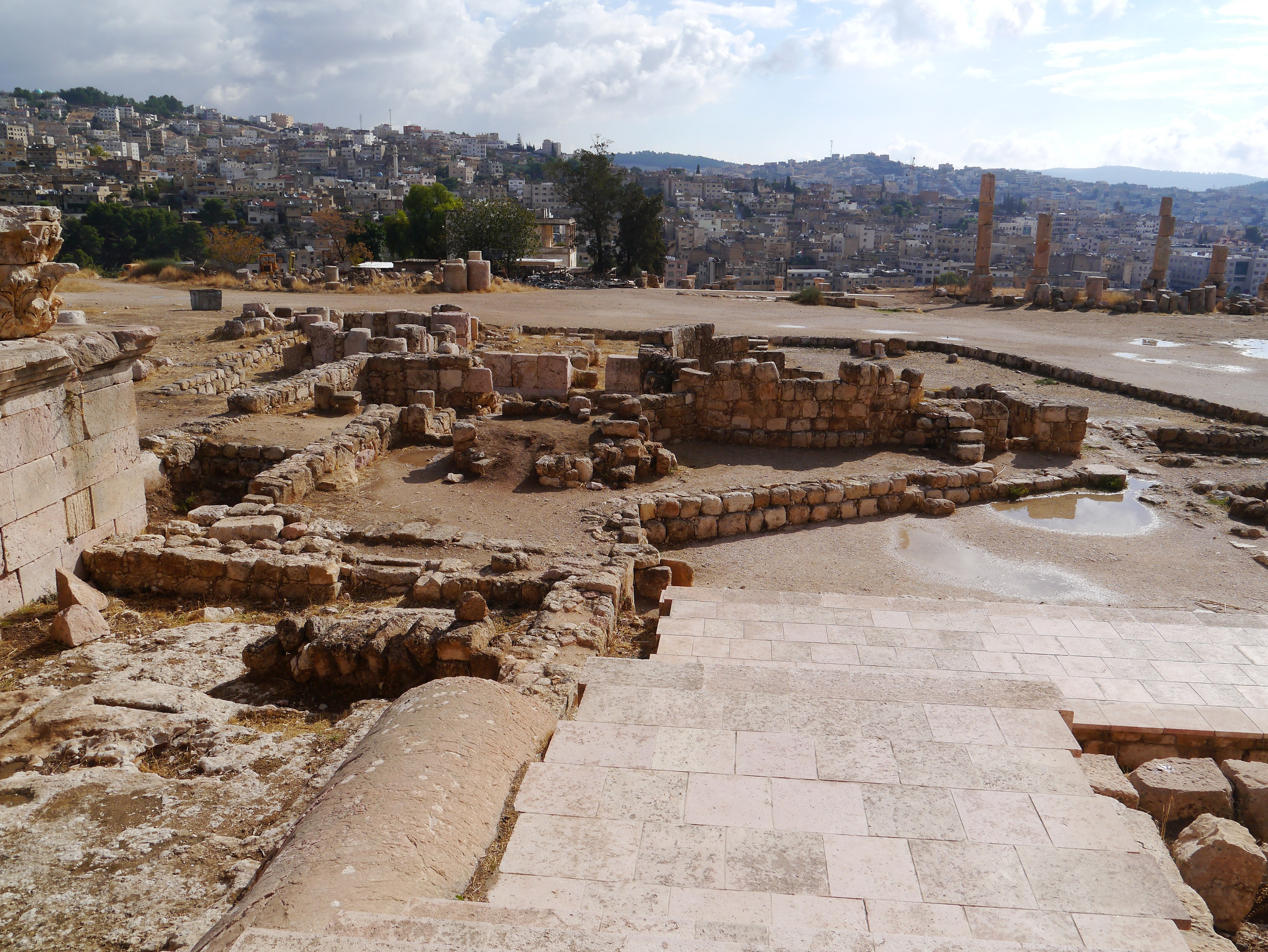 Temple of Artemis, Gerasa/Jerash, Northwest Jordan